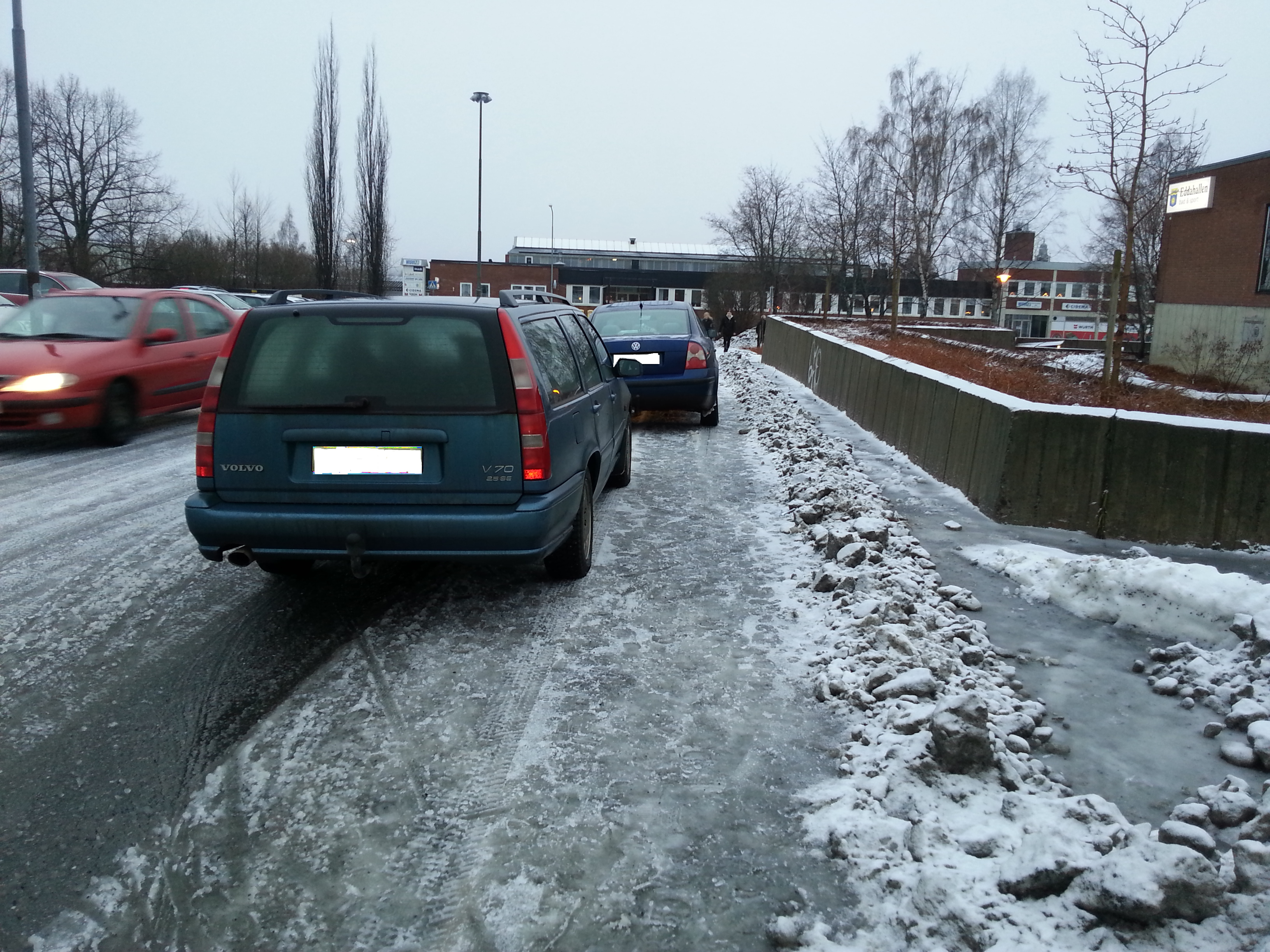 Bil som parkerat på trottoar. Vinterbild. Snöhögar på trottoaren.